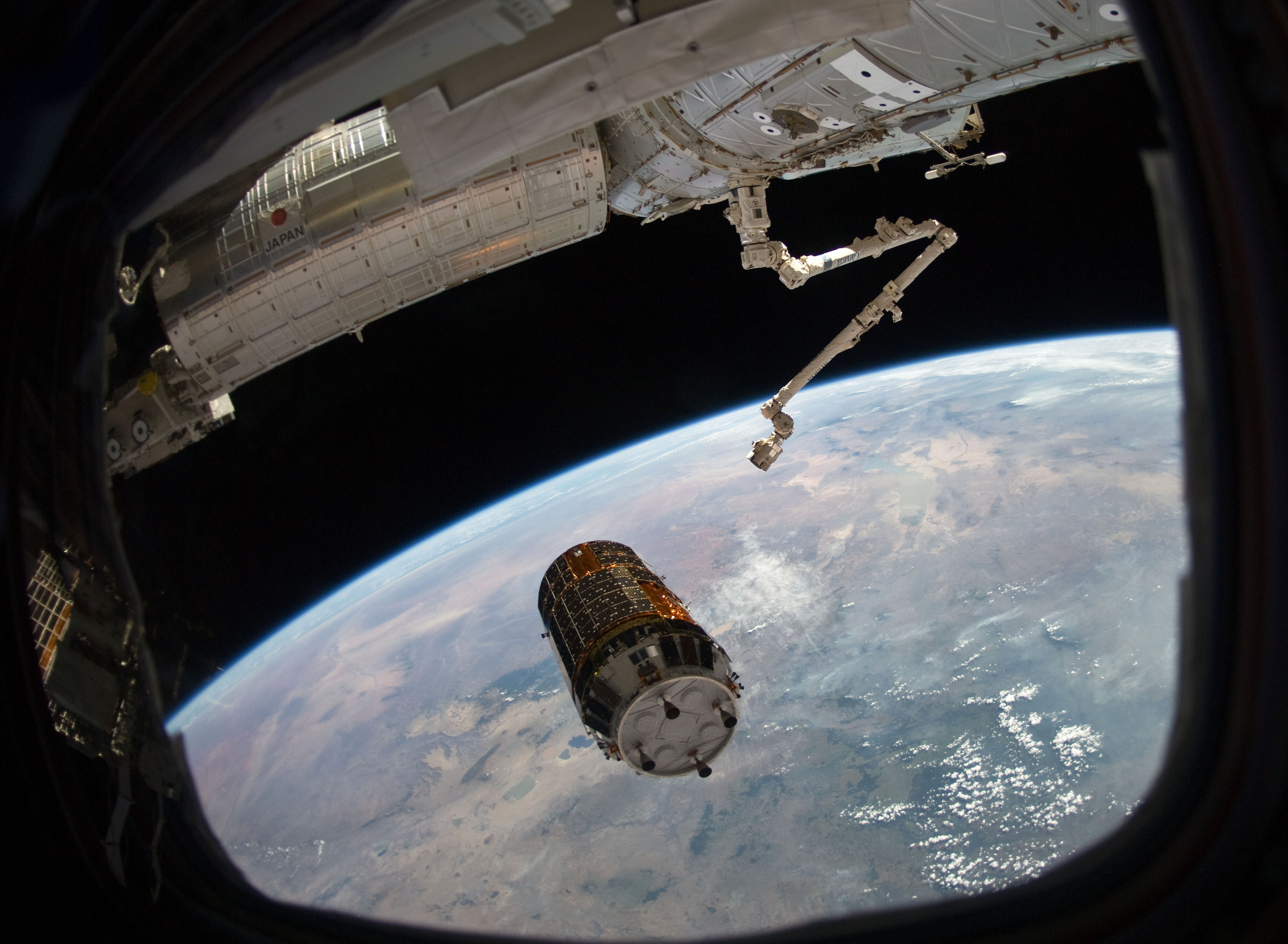 The unpiloted Japanese Kounotori2 H-II Transfer Vehicle (HTV2) approaches the International Space Station, delivering more than four tons of food and supplies to the space station and its crew members. The Japan Aerospace Exploration Agency (JAXA) launched HTV2 aboard an H-IIB rocket from the Tanegashima Space Center in southern Japan at 12:37 a.m. (EST) (2:27 p.m. Japan time) on Jan. 22, 2011. NASA astronaut Catherine (Cady) Coleman and European Space Agency astronaut Paolo Nespoli, both Expedition 26 flight engineers, used the station's robotic Canadarm2 to attach the HTV2 to the Earth-facing port of the Harmony node. The attachment was completed at 9:51 a.m. (EST) on Jan. 27, 2011.